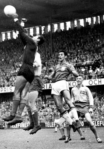 Brazilian goalkeeper Gilmar catching a ball during the 1958 World Cup final. Behind him, defender Orlando Peçanha.